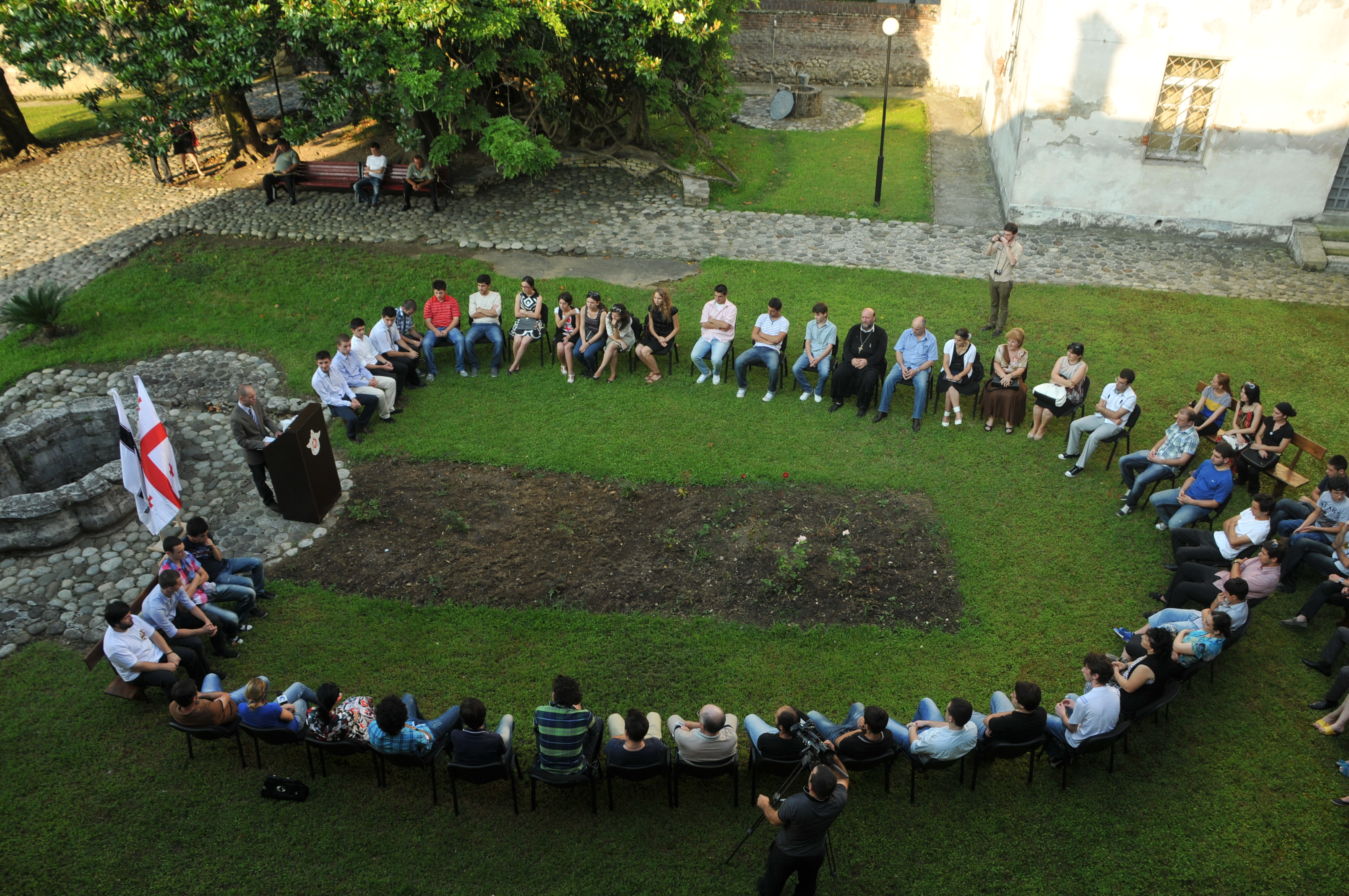 Cotne dadianis darbazi